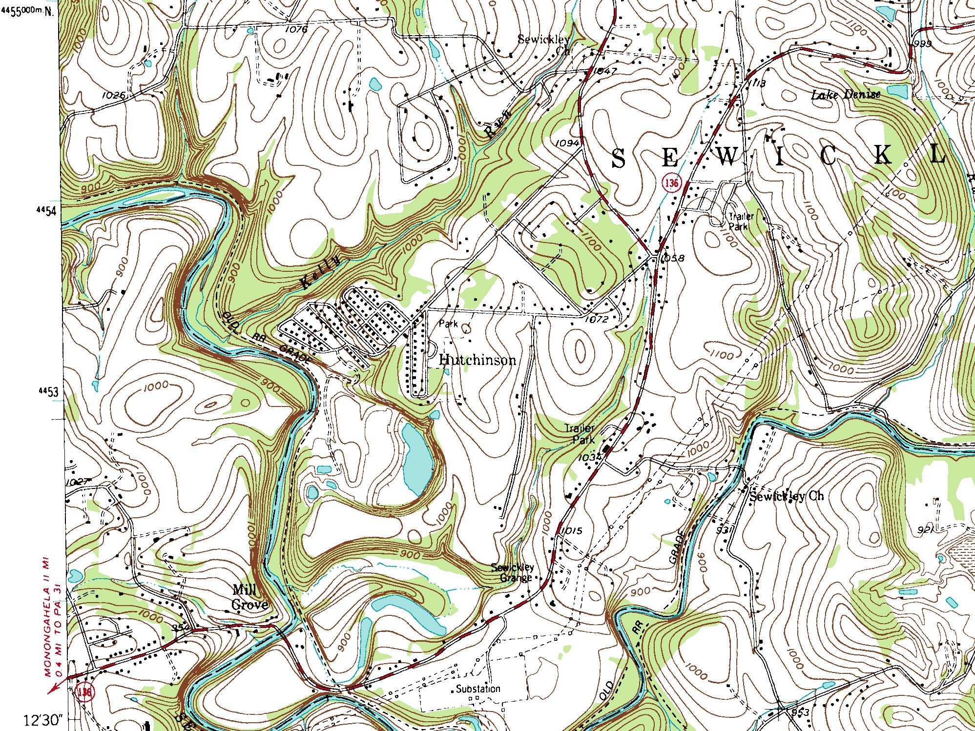 Contour interval 20 feet. National Geodetic Vertical Datum of 1929.